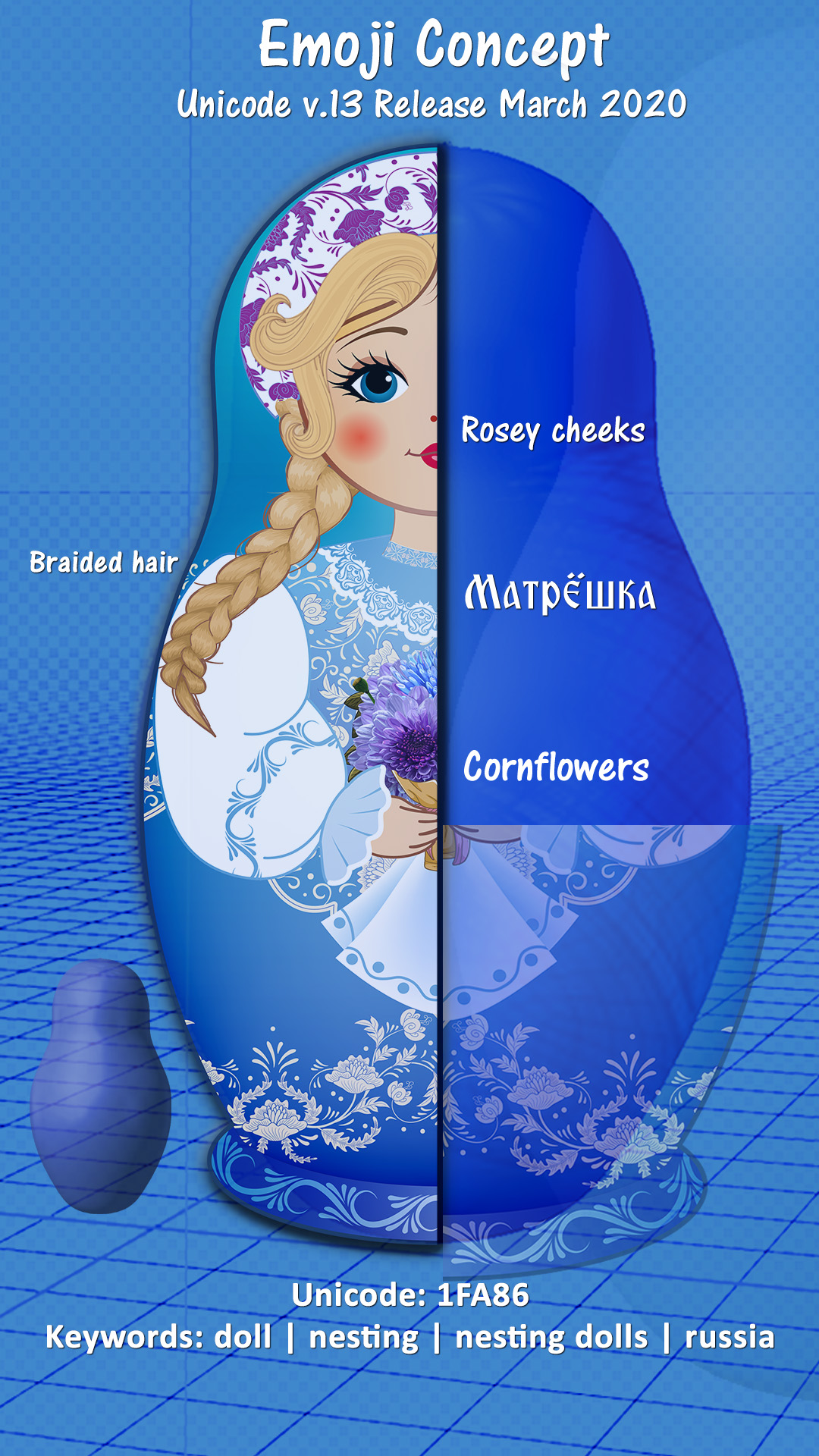 Submitted visual concept for the Matryoshka Emoji as approved in the v.13 release of the Unicode Consortium, March 2020